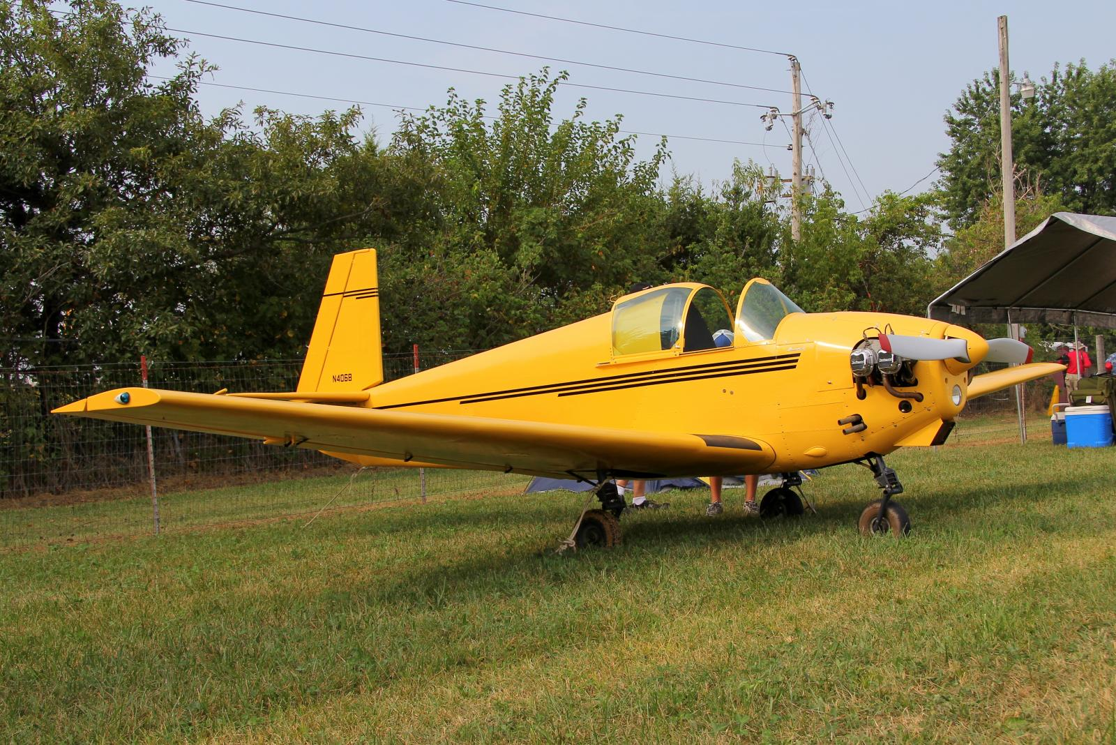 1952 Mooney M-18C C/N 258